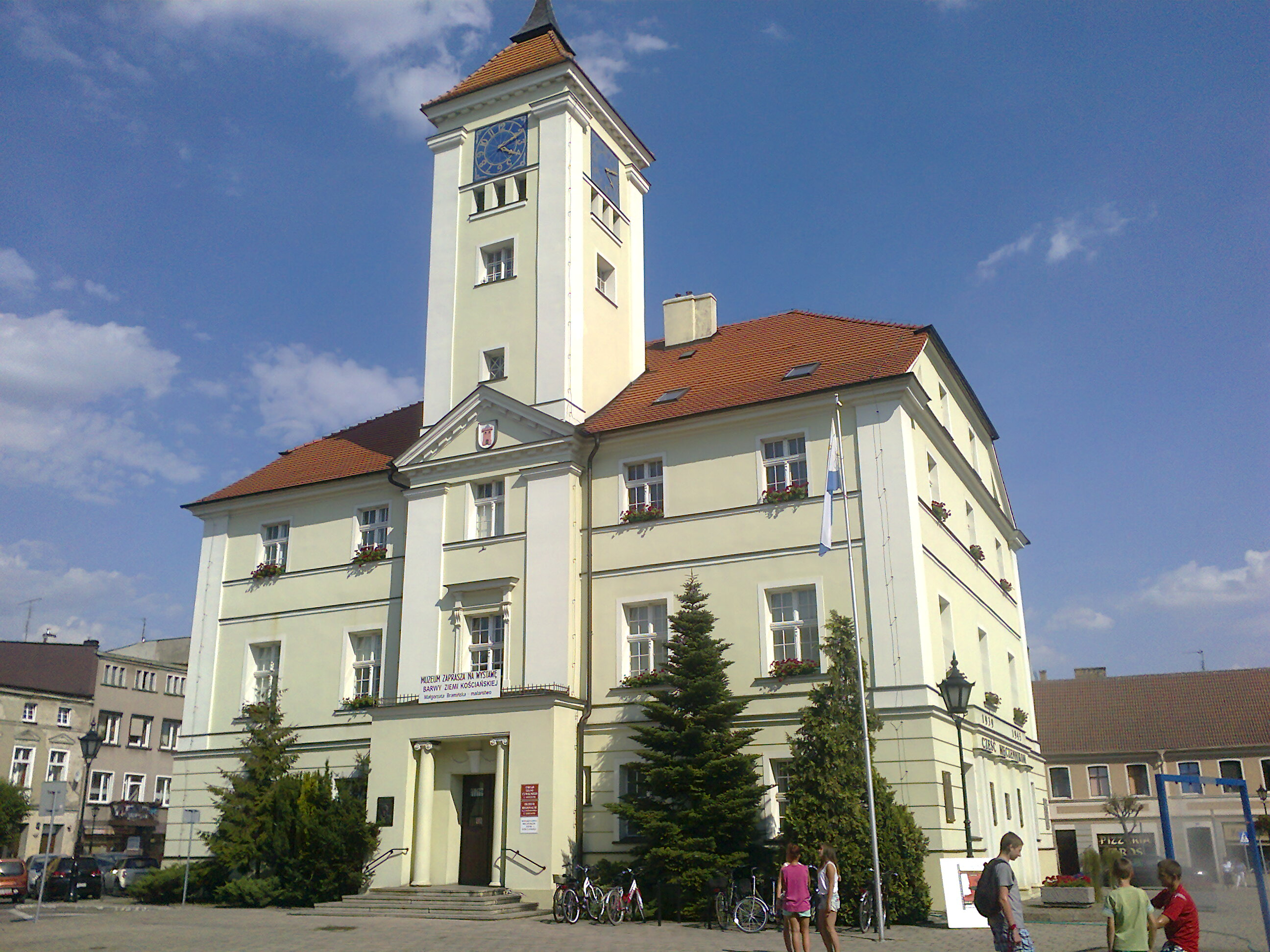 The town hall in Kościan (Poland)